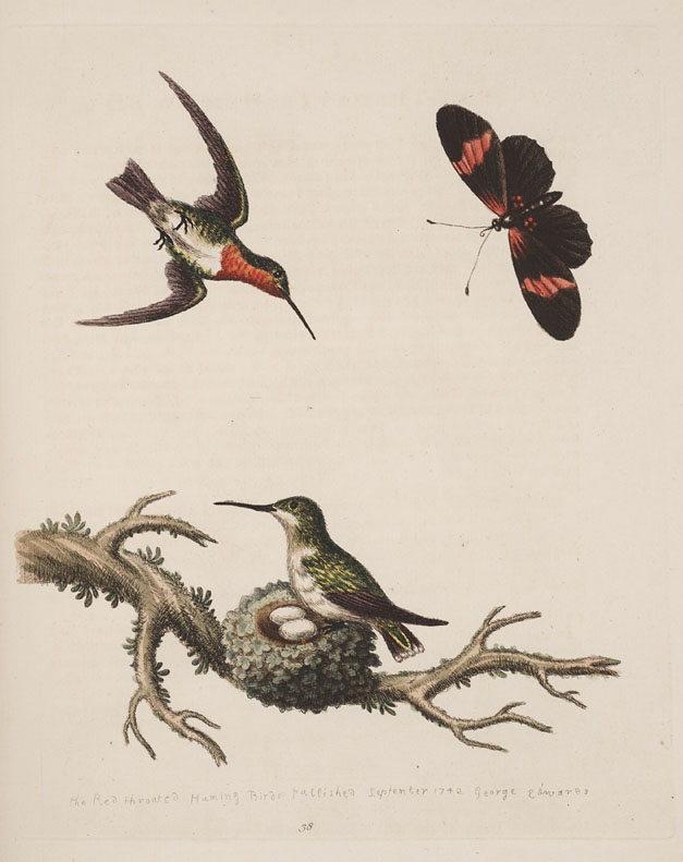 Engraving Archilochus colubris, the "Ruby-throated hummingbird" by George Edwards, 1743